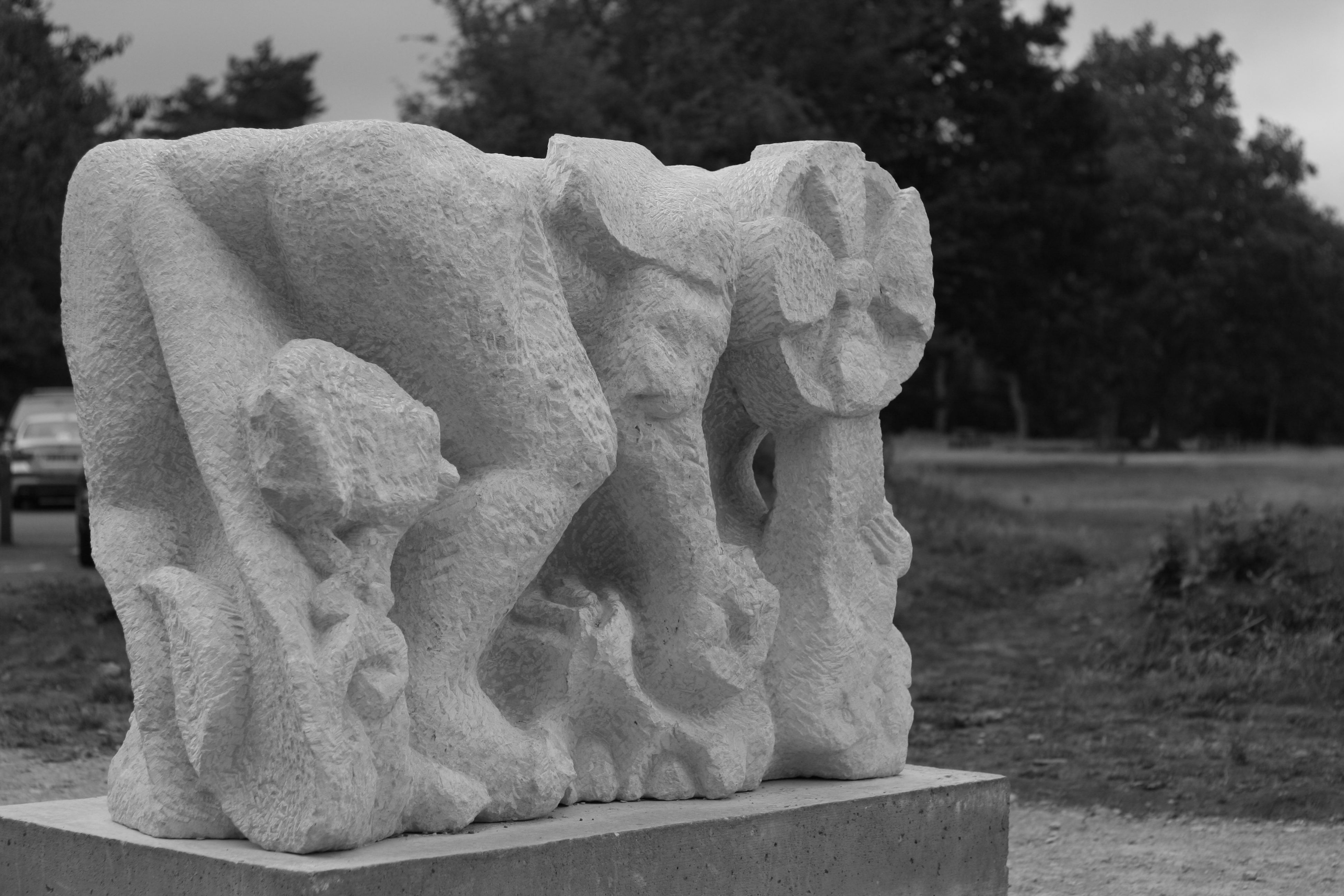 A public Portland Stone carving created by Jon Edgar through the Heritage Lottery-funded A3D project during 2012/13, celebrating the landscape re-united after the creation of the new A3 road tunnel. Named after a public consultation throughout 2013.